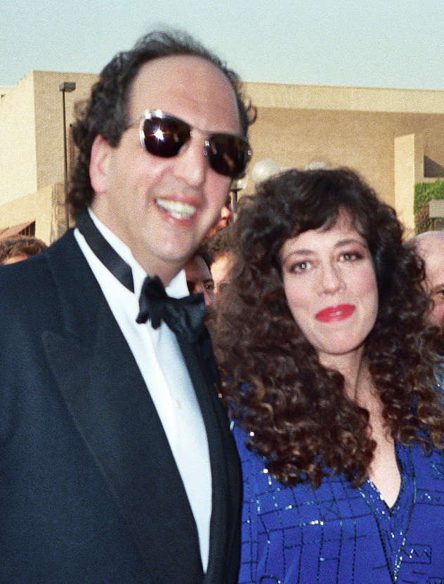 Vincent Schiavelli and Allyce Beasley on the red carpet at the 39th Annual Emmy Awards, September 20, 1987.731